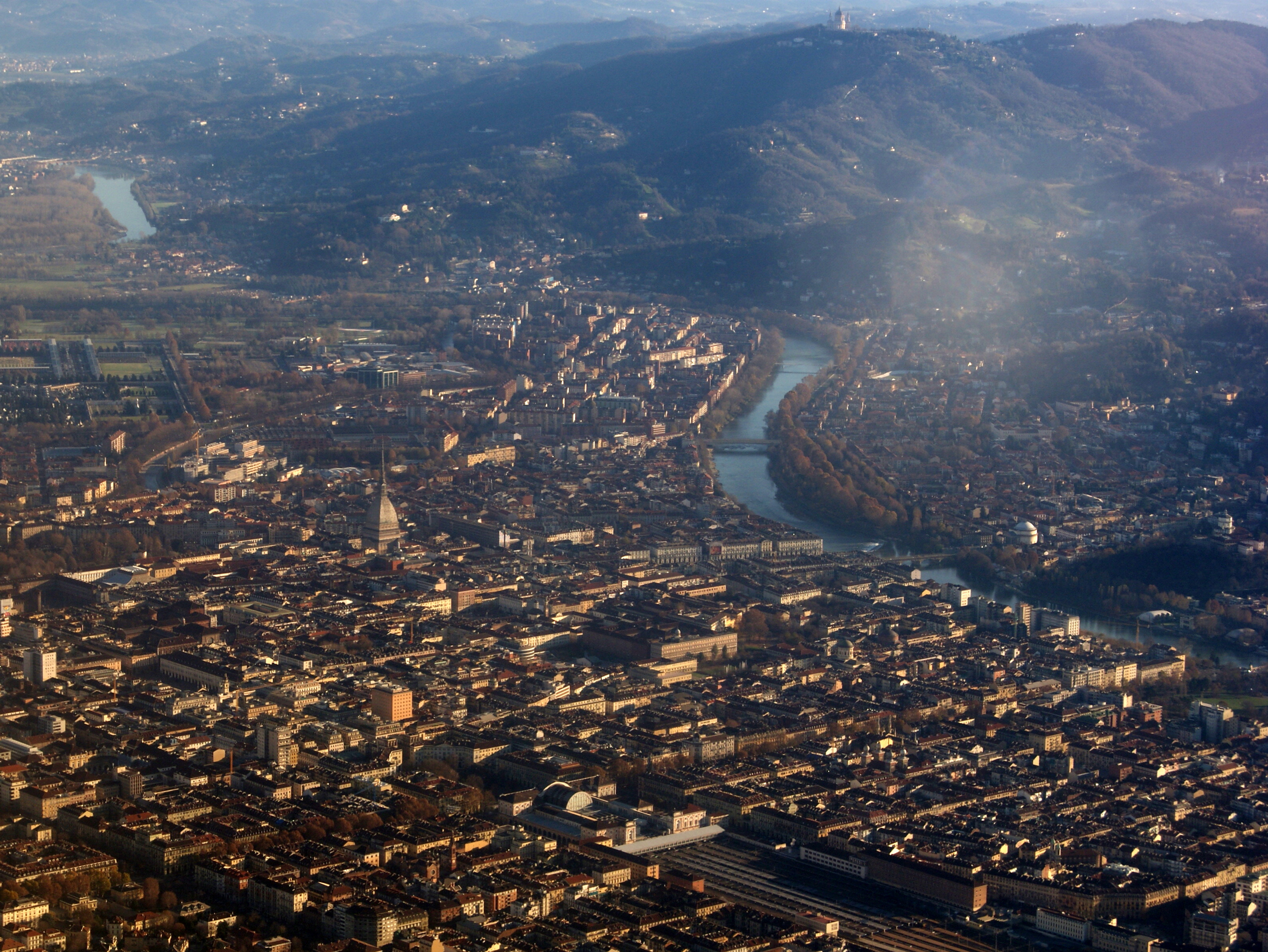 Panoramic of Turin - Italy